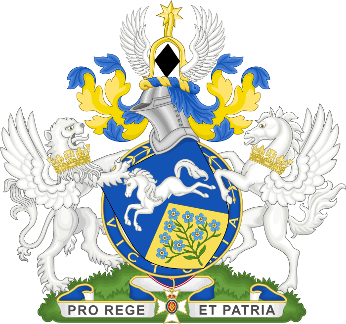 coat of arms of Mark Phillips Arms. Per chevron Azure and Or in chief, a horse courant Argent and in base a sprig of forget-me-not flowered, slipped and leaved proper. Crest. On a Wreath of the colours, a spur rowed upward or, winged argent, enclosing a lozenge sable. Supporters. On the dexter side a winged lion, and on the sinister side a winged horse Argent, each gorged with a representation of the Coronet of H.R.H. The Princess Anne proper. Motto. Pro rege et patria (For king and country). D. H. B. Chesshyre, "Heraldry: Captain Mark Phillips C.V.O.", British History Illustrated, V, 3 (Aug-Sept 1978), p. 45